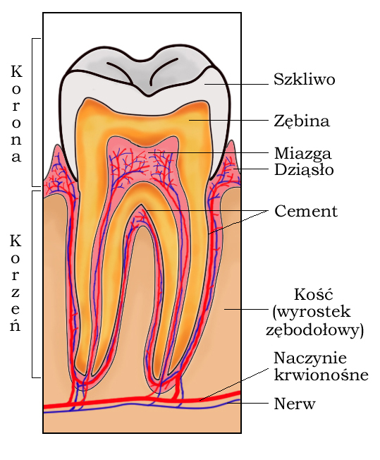 Cross section showing parts of a tooth